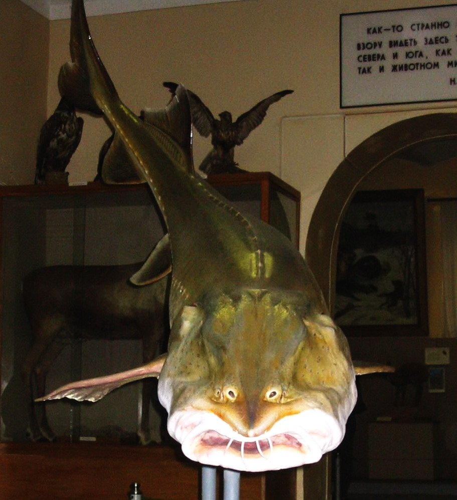 Mounted kaluga sturgeon (Huso dauricus) photographed at the Khabarovsk Regional Lore Museum (Хабаровский краеведческий музей им. И.М. Гродекова) The fish is a male captured on June 9, 1996, 3.5 m in length and weighing roughly 250 kg.